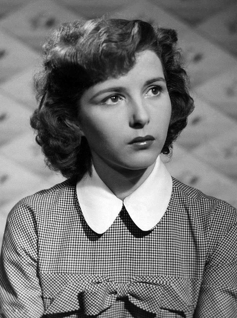 The Italian actress Delia Scala in a scene from the dramatic film 'Side Street Story' (Napoli Milionaria) directed by Eduardo De Filippo. Italy, 1950